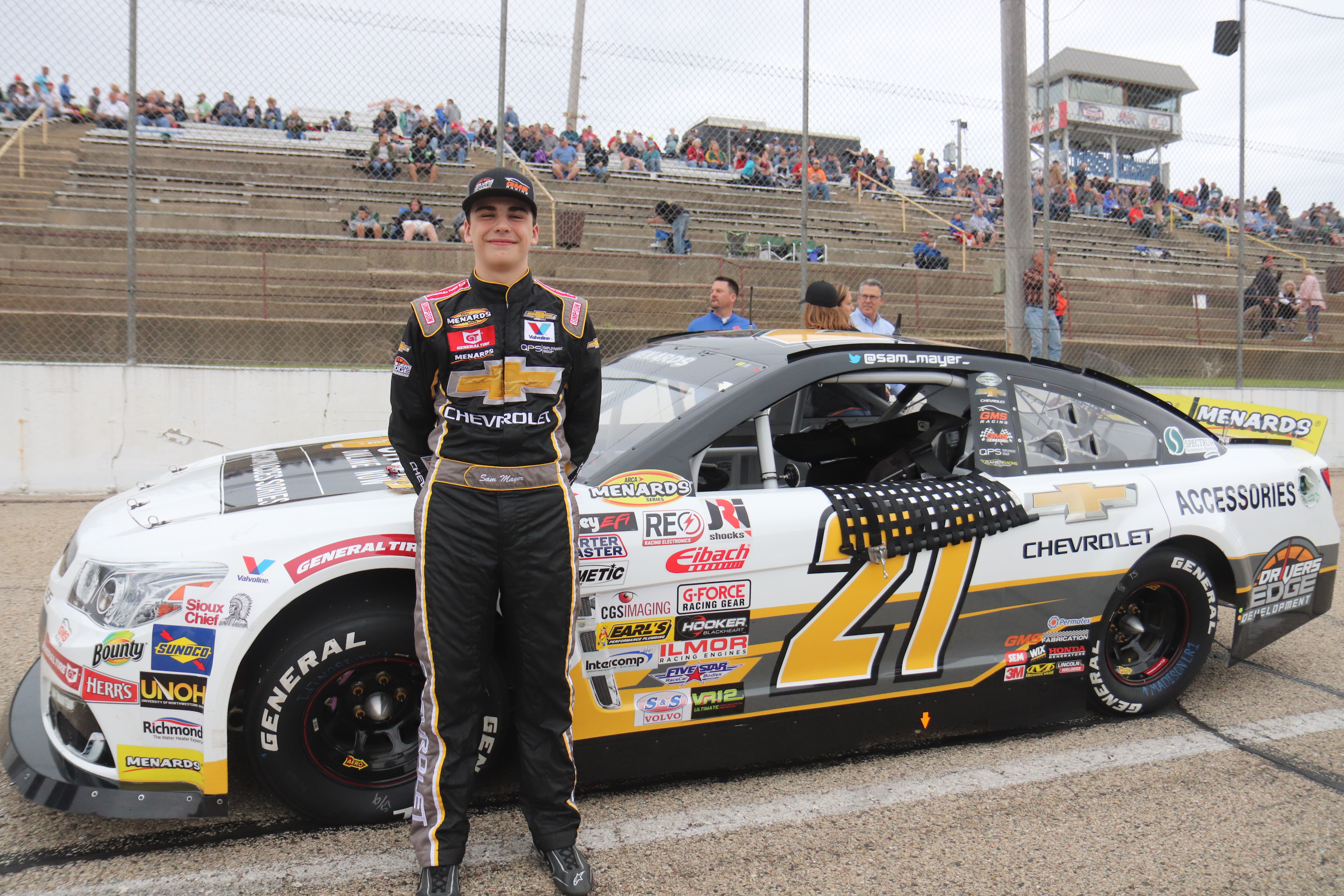 Home state driver Sam Mayer beside #21 Chevrolet SS ARCA car at Madison International Speedway.